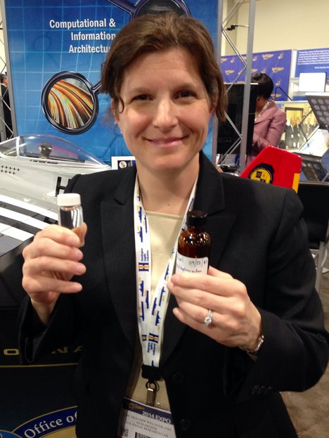 Dr. Heather Willauer, an analytical chemist and inventor working for the United States Naval Research Laboratory, holds samples of hydrocarbon liquids, synthetic fuel formed from carbon dioxide and hydrogen taken from seawater.